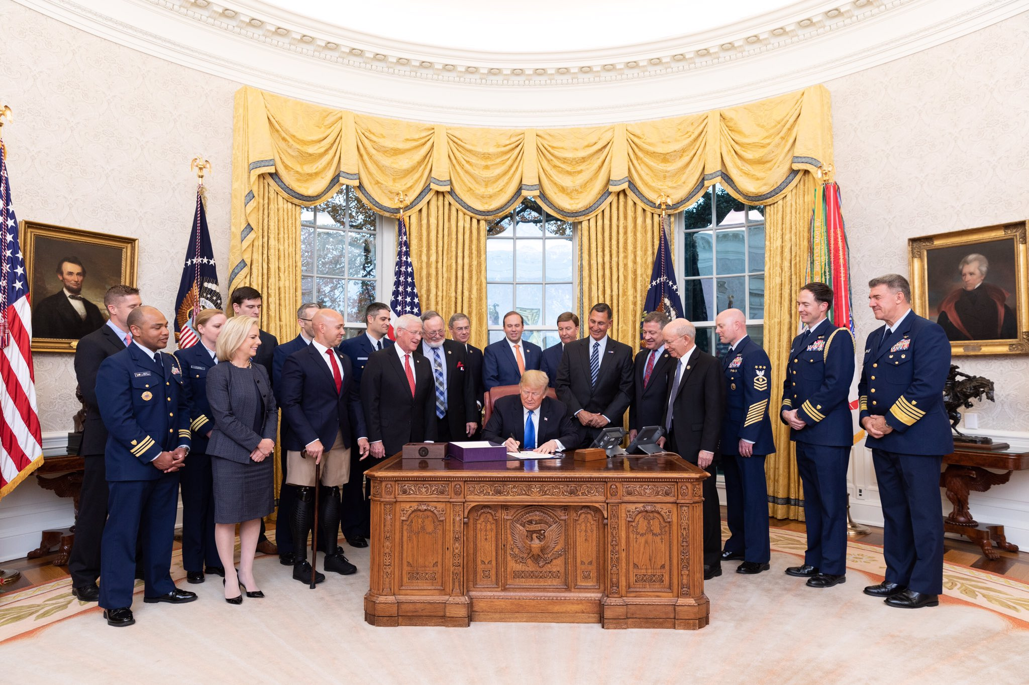 Earlier this week Alaska Congressman Don Young joined President Donald Trump in the Oval Office as he signed S. 140, the Frank LoBiondo Coast Guard Authorization Act of 2018, into law. President Donald J. Trump signs S.140 The Frank LoBiondo Coast Guard Authorization Act of 2018 Tuesday, Dec. 4, 2018, in the Oval Office of the White House.(Official White House Photo by Joyce N. Boghosian)